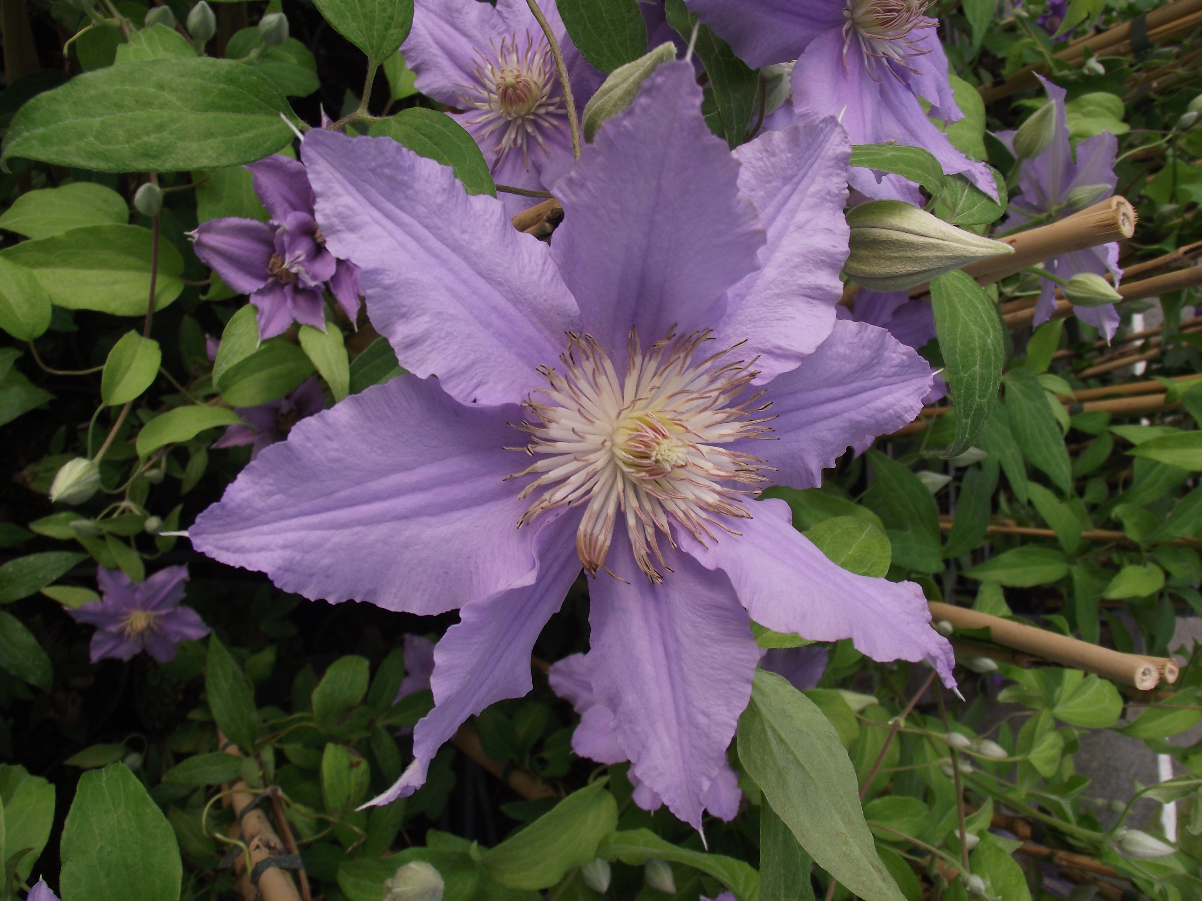 Clematis Angelique Evipo017